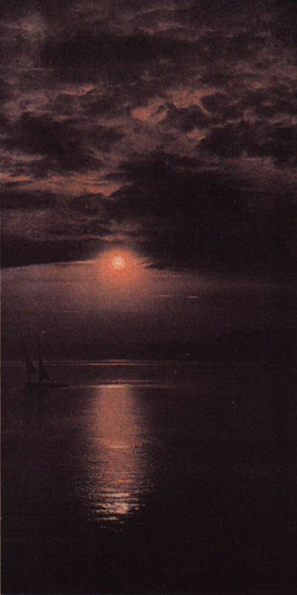 Postcard